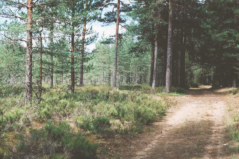 Scots Pine forest with heath on Karelian Isthmus, 2006